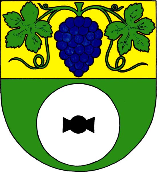 Municipal coat of arms of Velké Žernoseky village, Litoměřice District, Czech Republic.